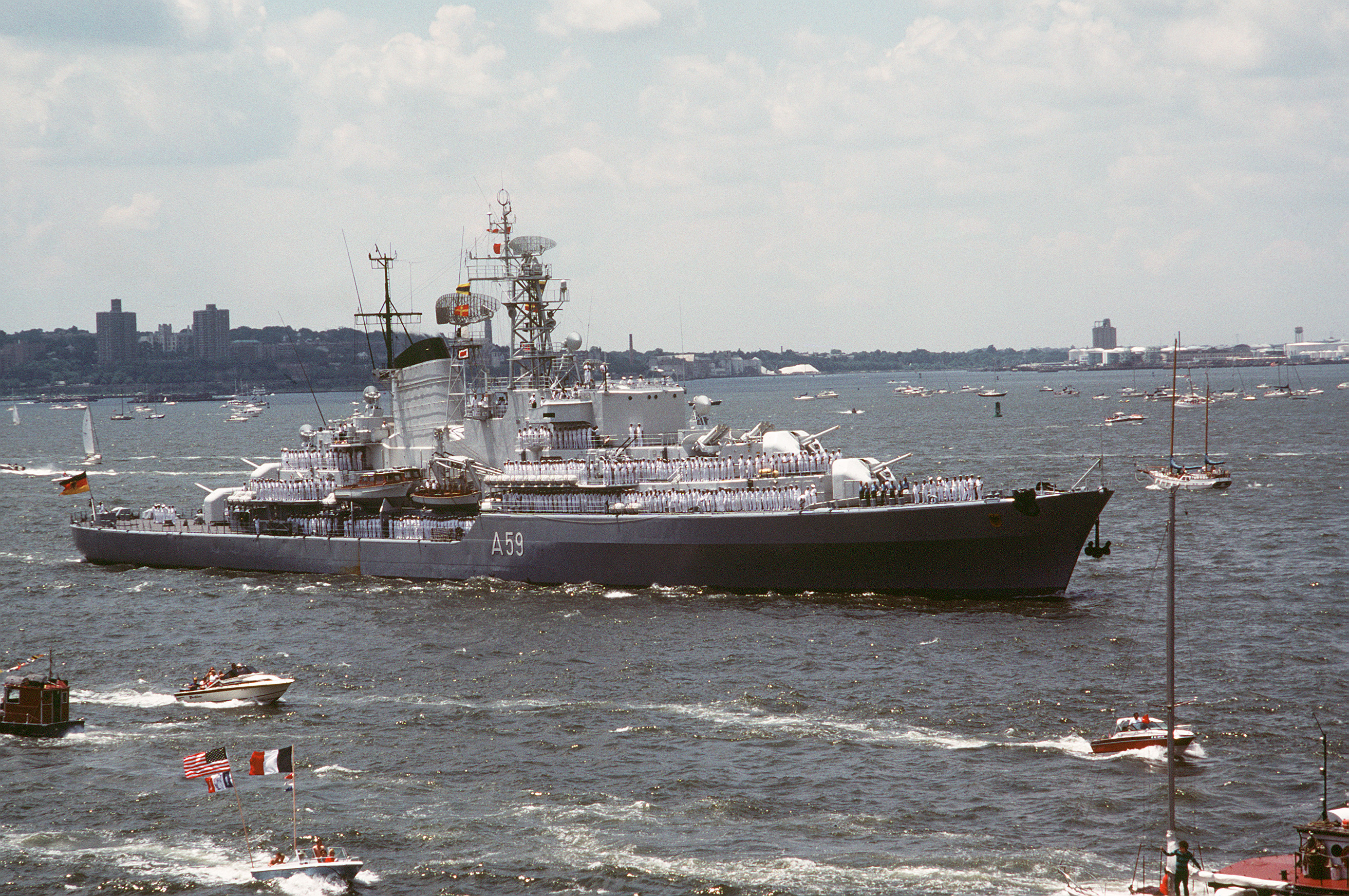 The German Navy training ship Deutschland (A 59) passing in review during the International Naval Review celebrating the centennial of the Statue of Liberty in New York harbour, New York (USA), on 4 July 1986.